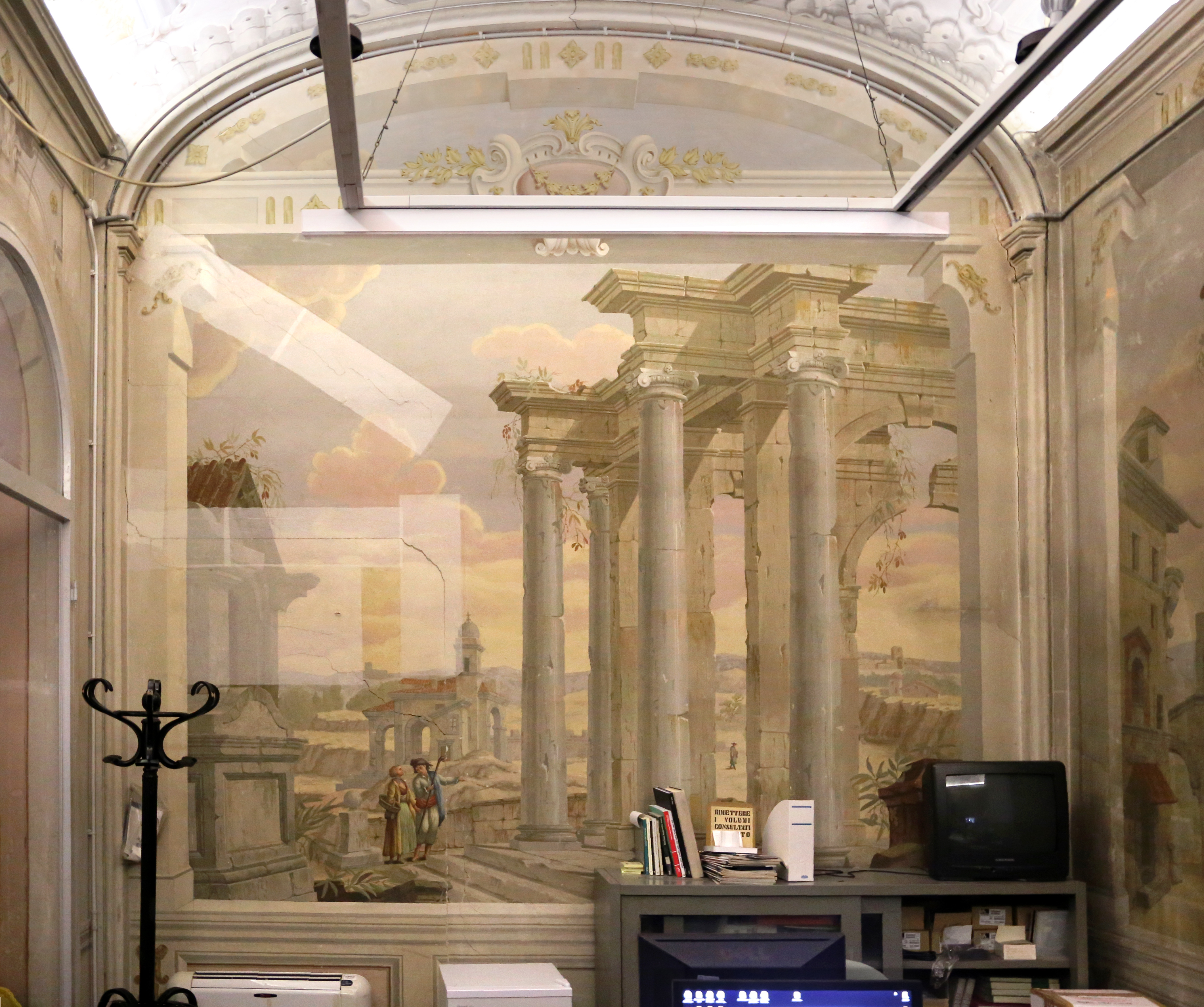 Palazzo di San Clemente - 18th-century Summer Apartments